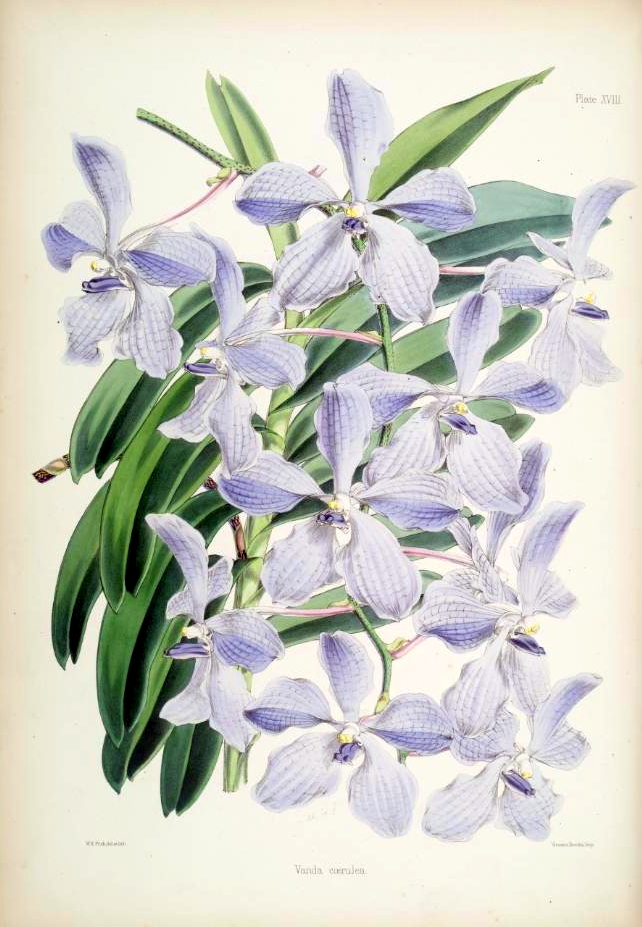 Illustration of Vanda coerulea